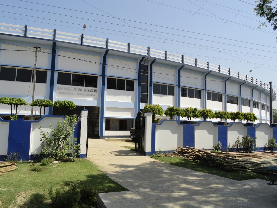 The entrance of Gangarampur Stadium